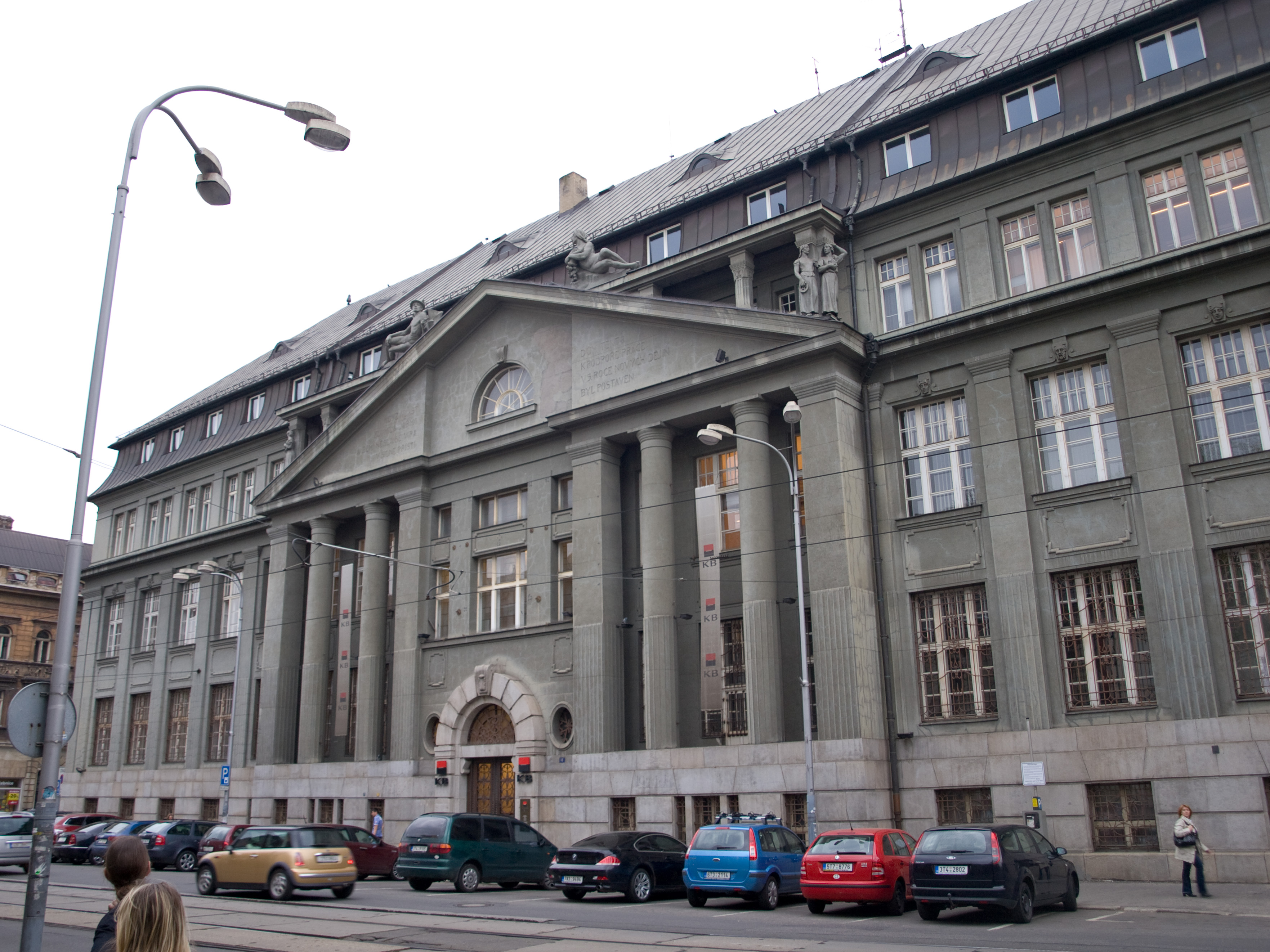 Moravská Ostrava